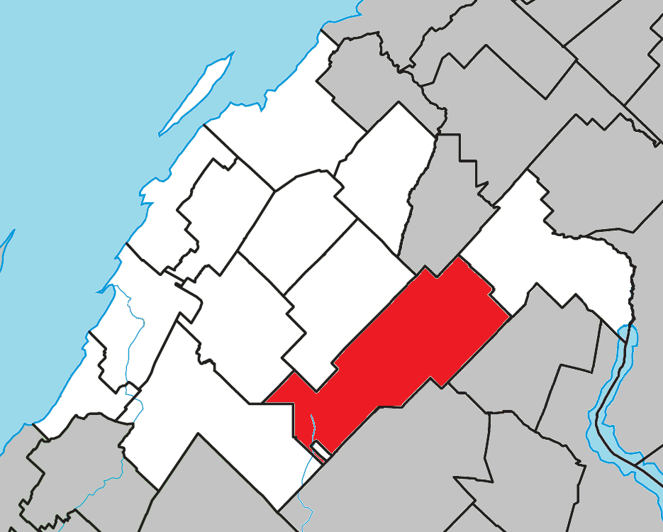 Location of Saint-Hubert-de-Rivière-du-Loup, Quebec within Rivière-du-Loup Regional County Municipality.